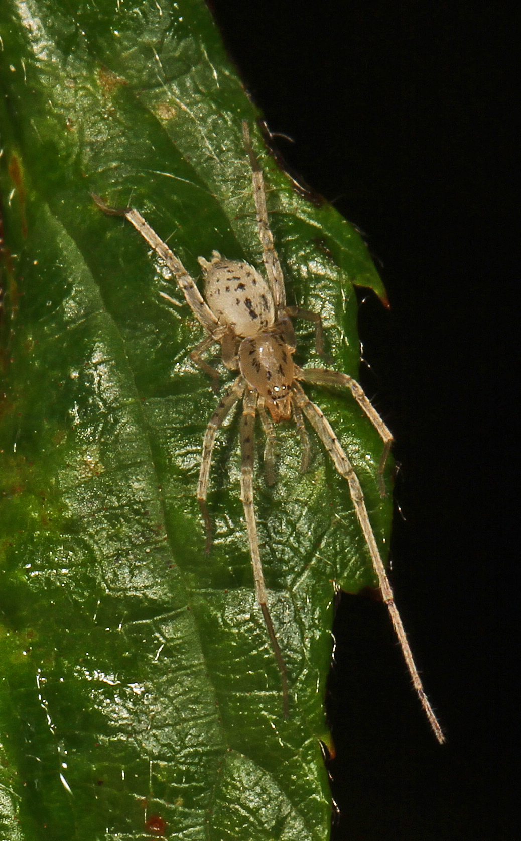 Ghost Spider - Wulfila saltabundus, Julie Metz Wetlands, Woodbridge, Virginia